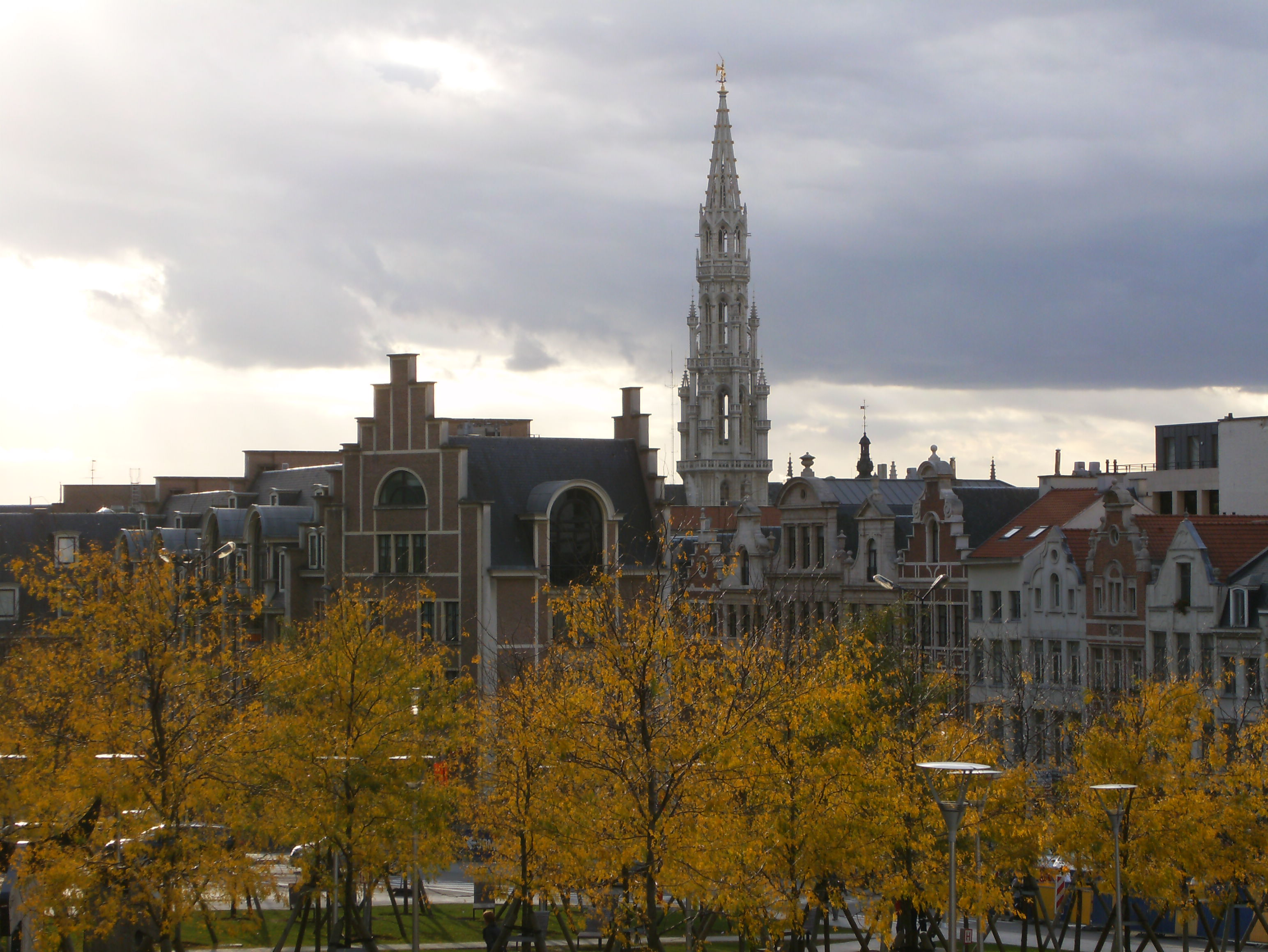 View from Sainte-Gudule Cathedral: rue de la Montagne (right), Brussels town hall (center) and Novotel (left, new building in medieval-like style)